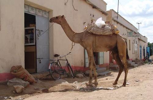 Barentu, Eritrea.